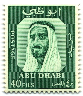 Abu Dhabi 40f stamp of 1967.